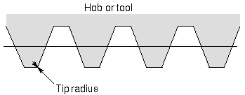 Tip radius